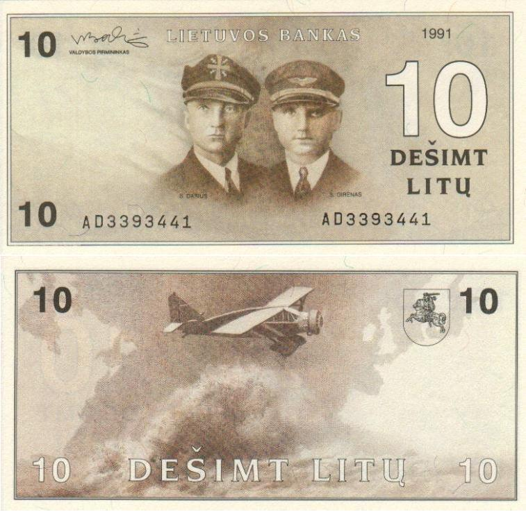 10 litai banknote printed in 1991 (1992?) and released to the public in 1993 for a very brief period of time. In essence this banknote is without any security features.